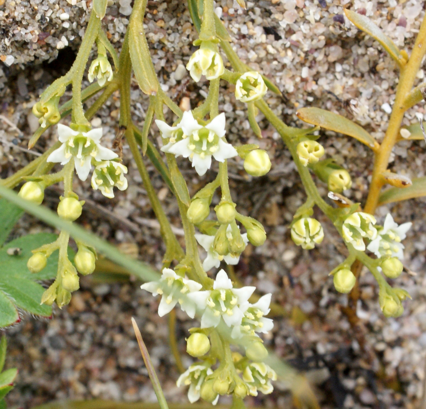 Thesium humifusum